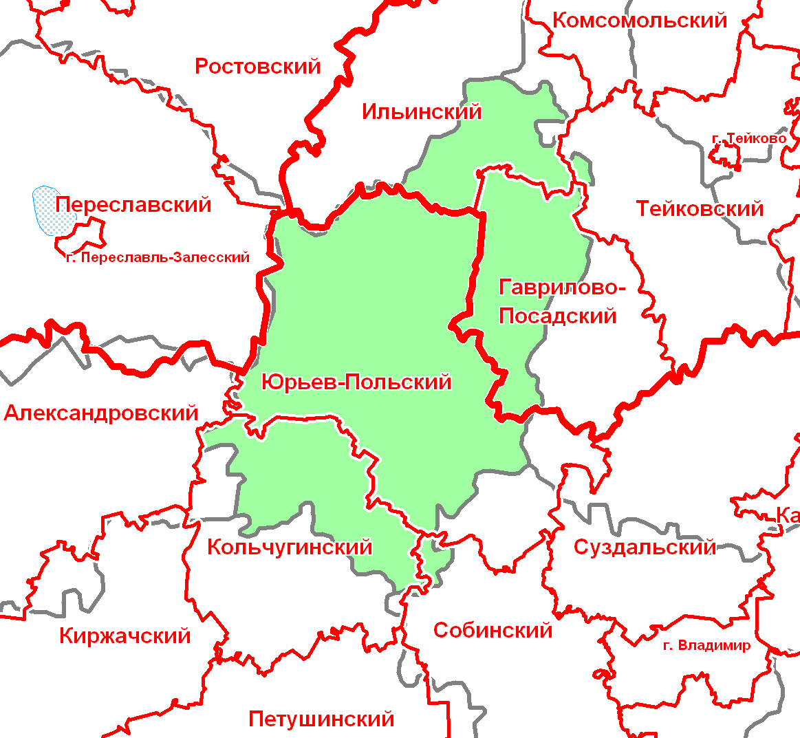 Maps of Vladimir Governorate